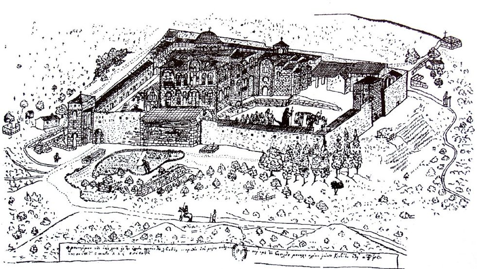 Monastery of Hosios Loukas in 1743